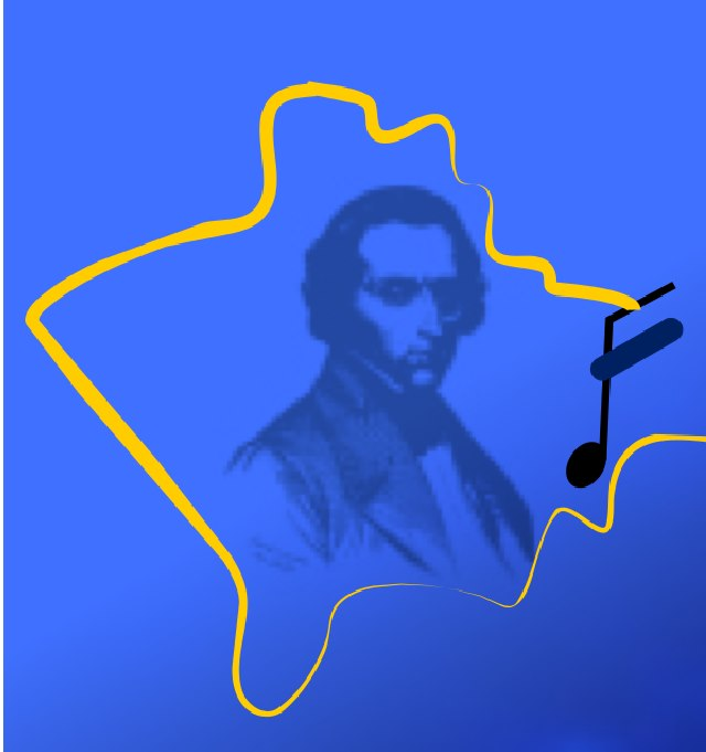 Chopin Fest Official Poster (2013)